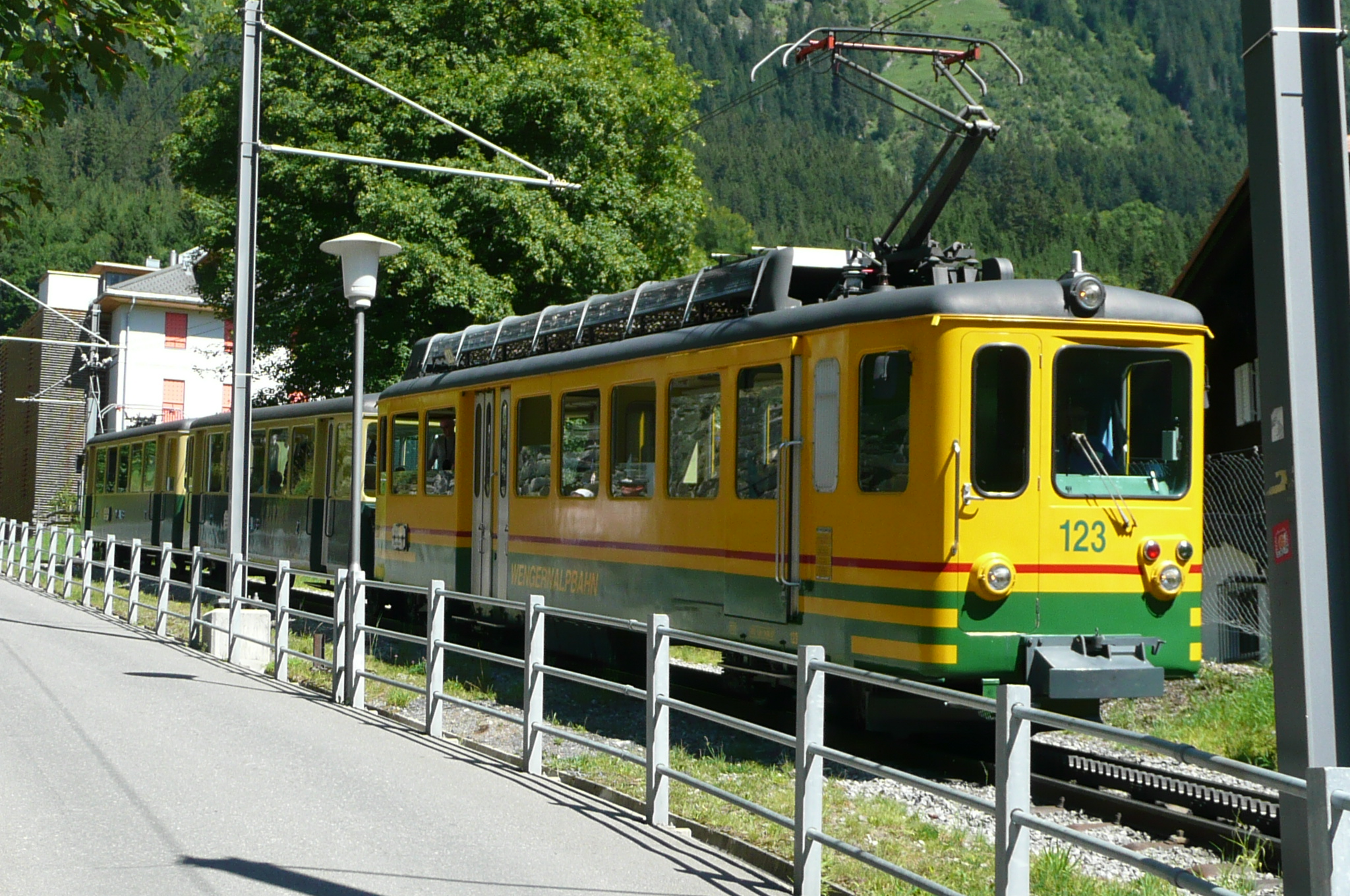 Wengernalp rack railway summer shuttle train composition since 1970 motor coach BDhe 4/4 123 of 1970 in 1998 colouring and passenger coaches built 1962-1968 in older colouring. Wengen, line Lauterbrunnen-Kleine Scheidegg – 2009-08-05